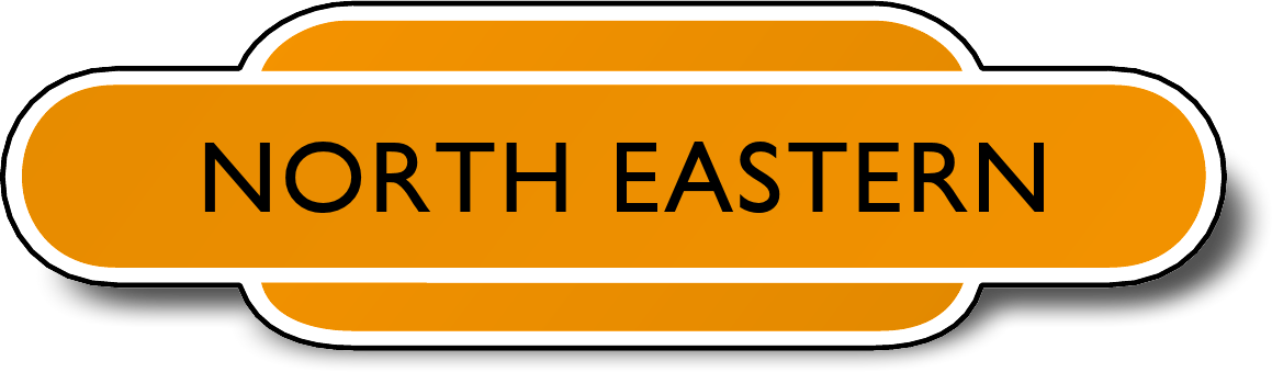 Self-made derivative of the railway station signage used by the British Transport Commission from nationalisation of the railways until the merger of the region into the Eastern Region and the 1960s "British Rail" rebrand. Design based on the non-trademarked and not copyrightable station sign shape, with colours taken from standard reference works about the totems in use at the time.